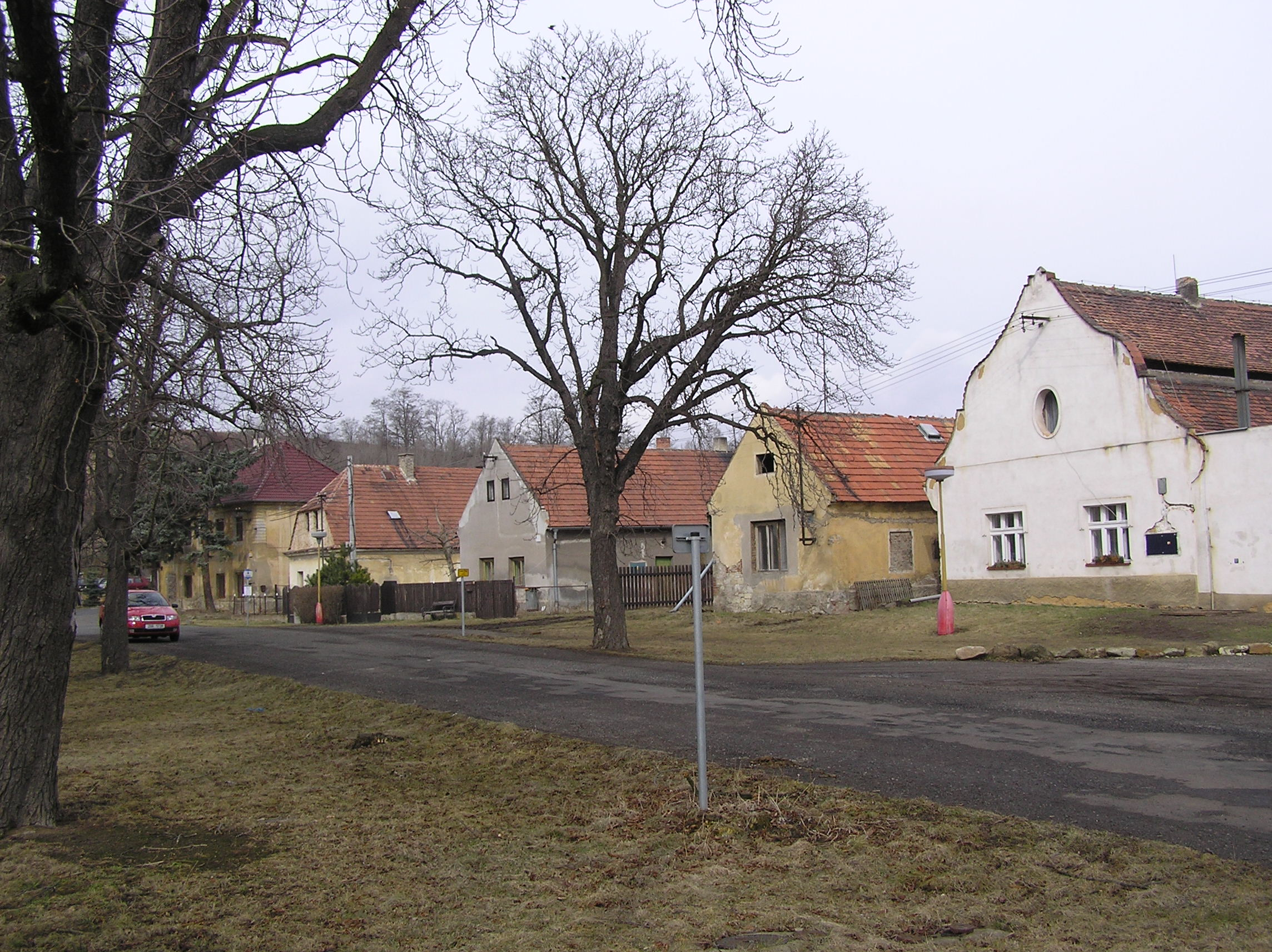 Village square in Břežany